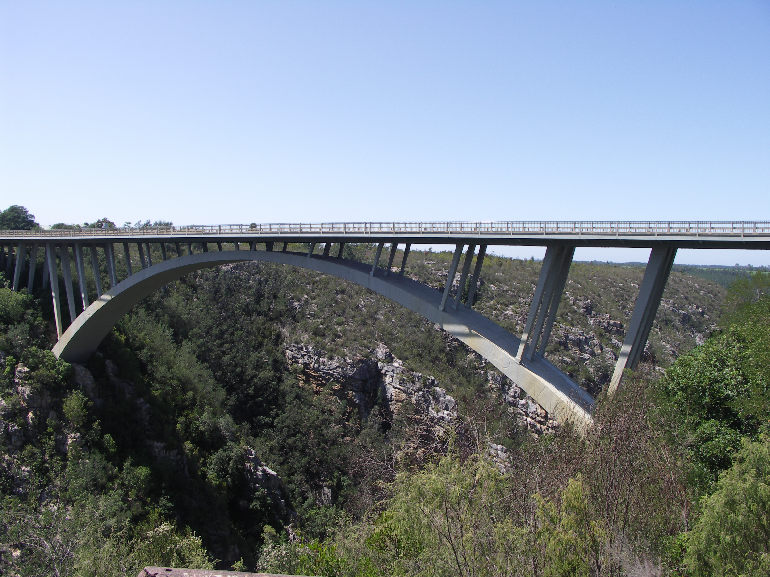 The N2 bridge over the Storms River, Easter Cape, South Africa